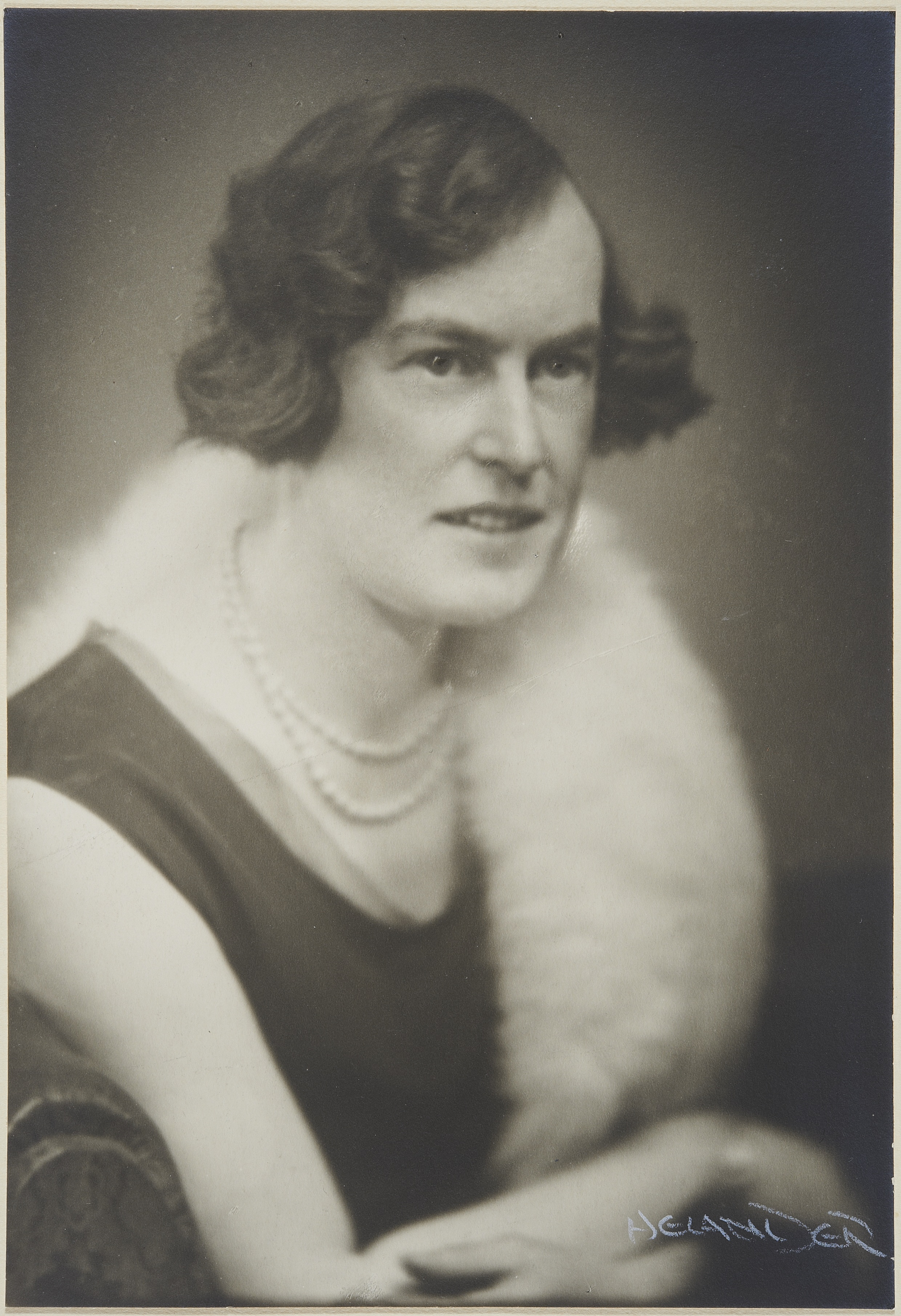 The Finnish singer Ina von Pfaler, picture from the 1930s